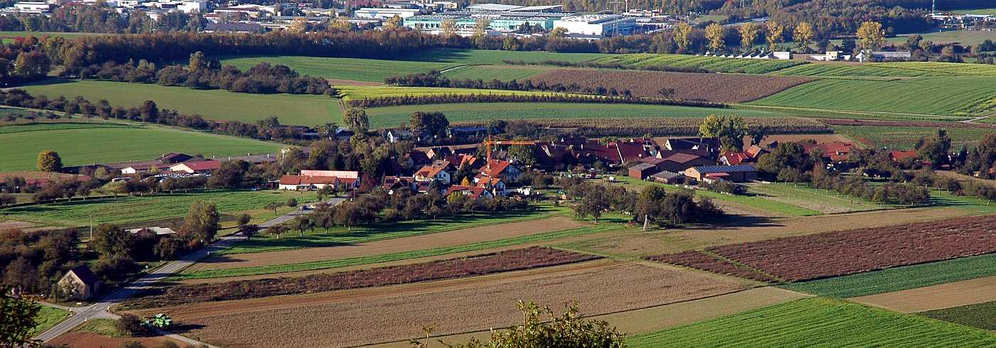 View at Abstetterhof from the Wunnenstein.